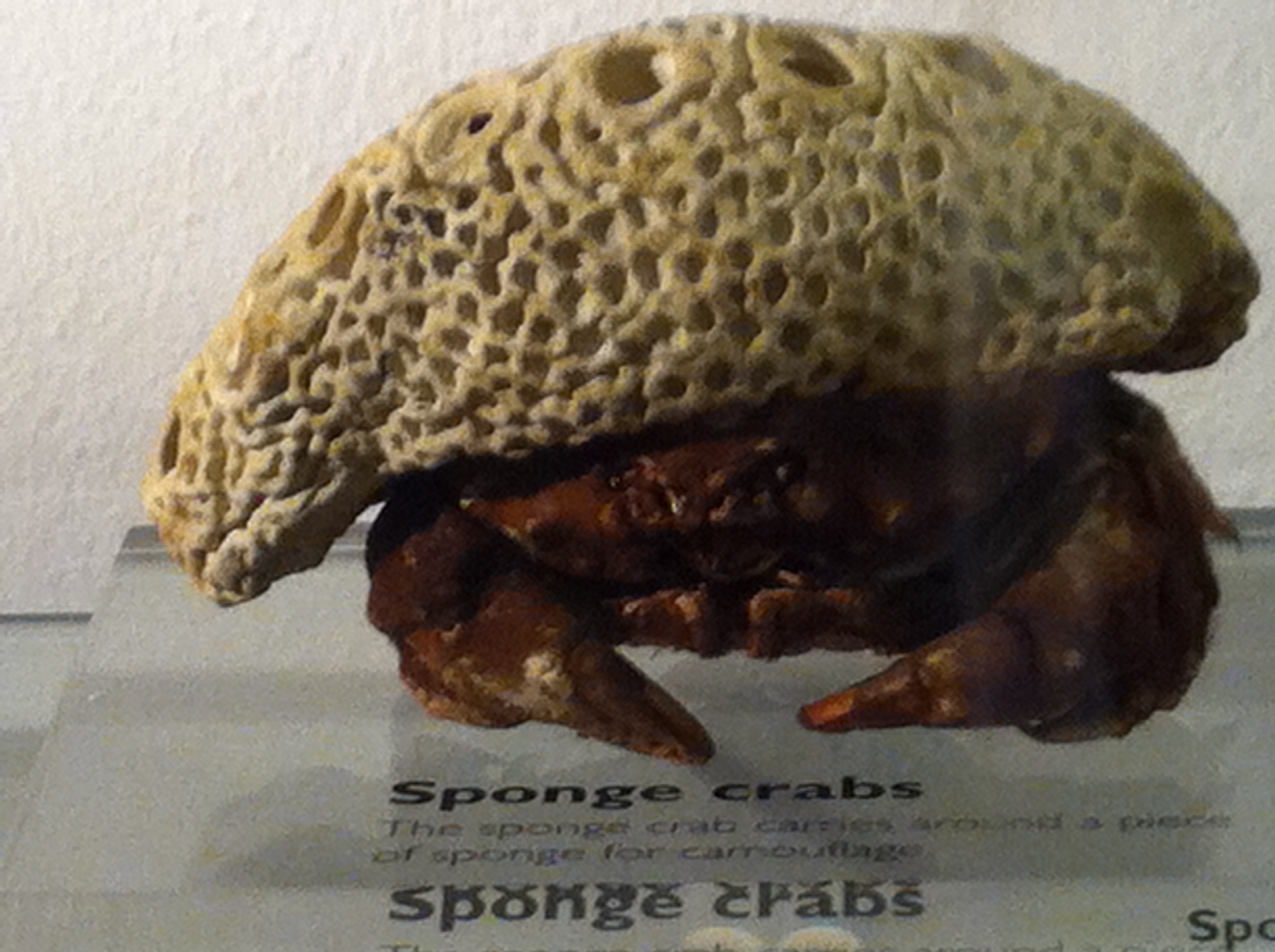 Sponge crab (Dromia personata) - NHM London - With sponge